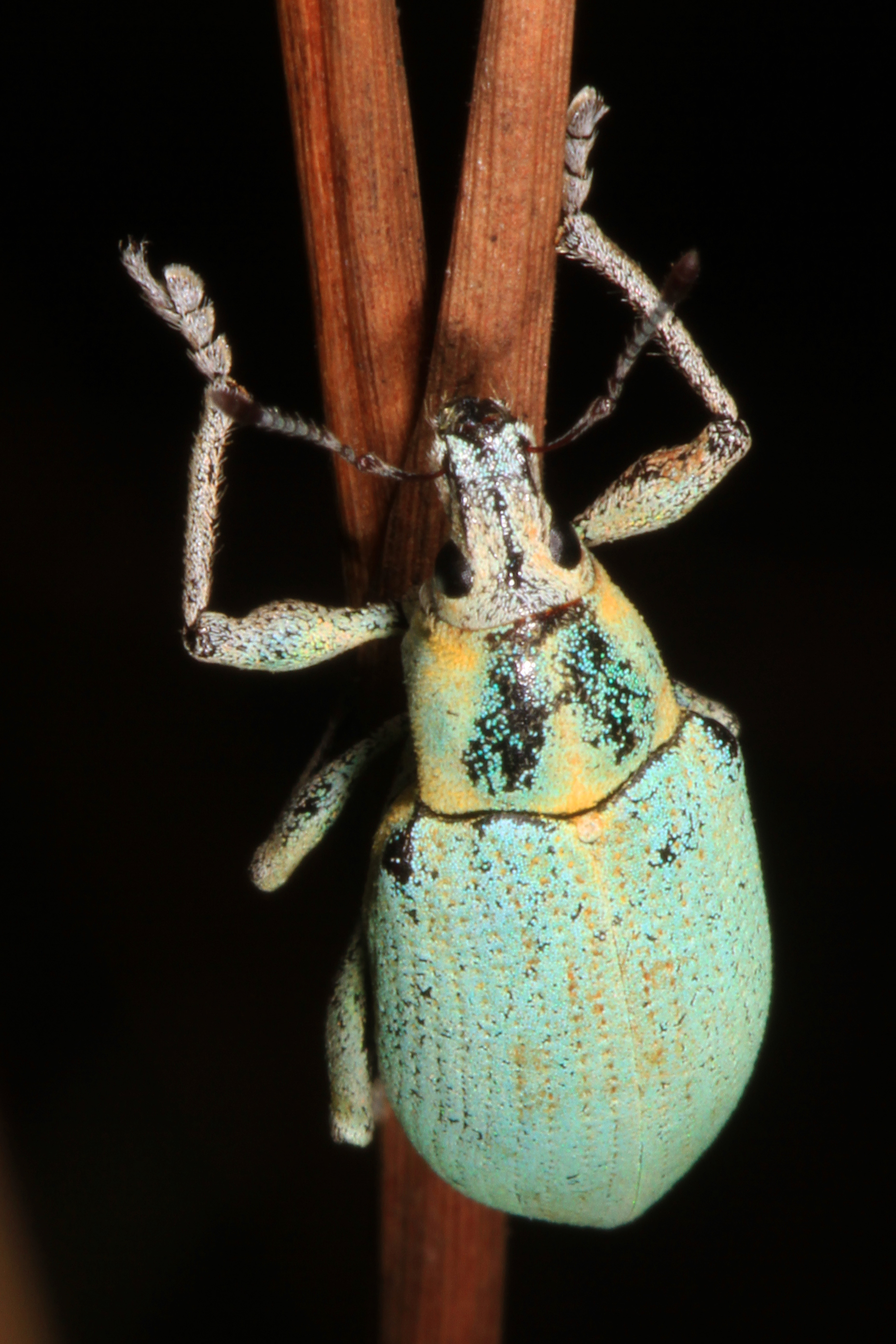 Blue-green Citrus Root Weevil - Pachnaeus litus, Long Pine Key, Everglades National Park, Homestead, Florida